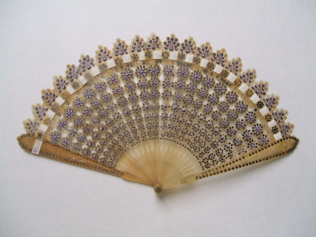 Blond horn brisé hand fan with steel dots applied. It is a typical exemple of the early decades of XIX century